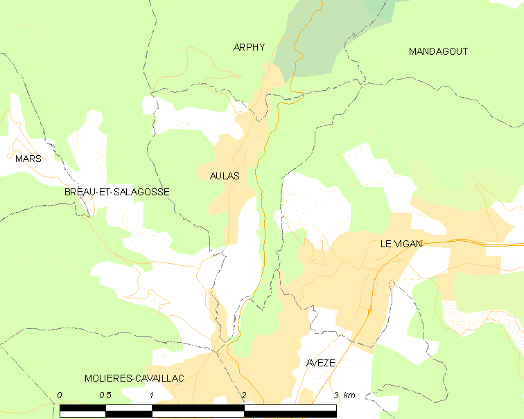 Map commune FR insee code 30024.png - Aulas